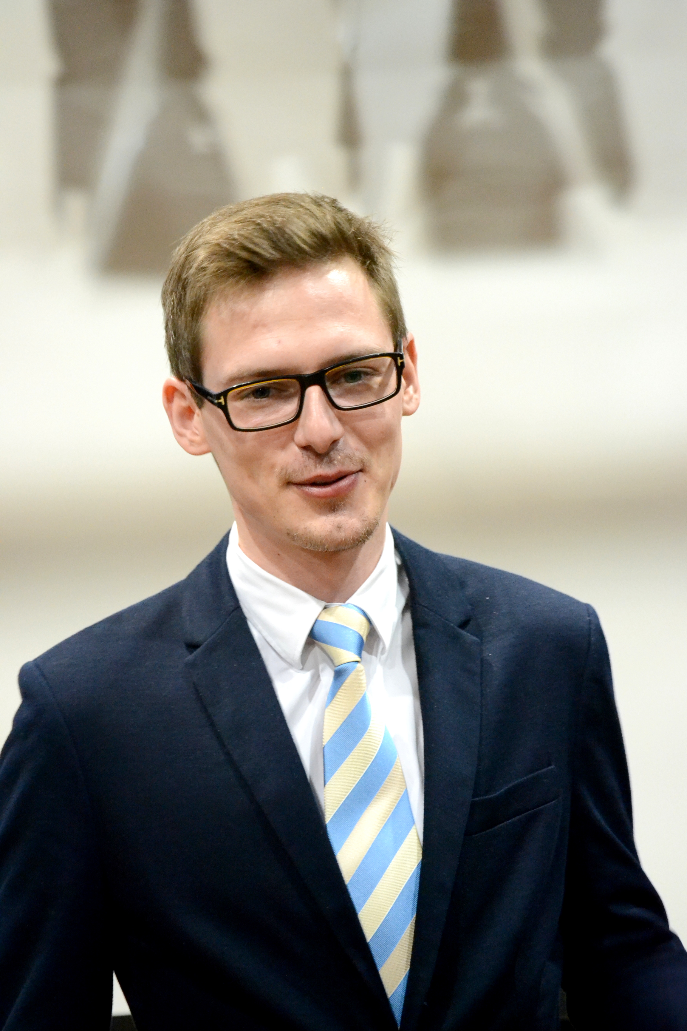 Polish journalists